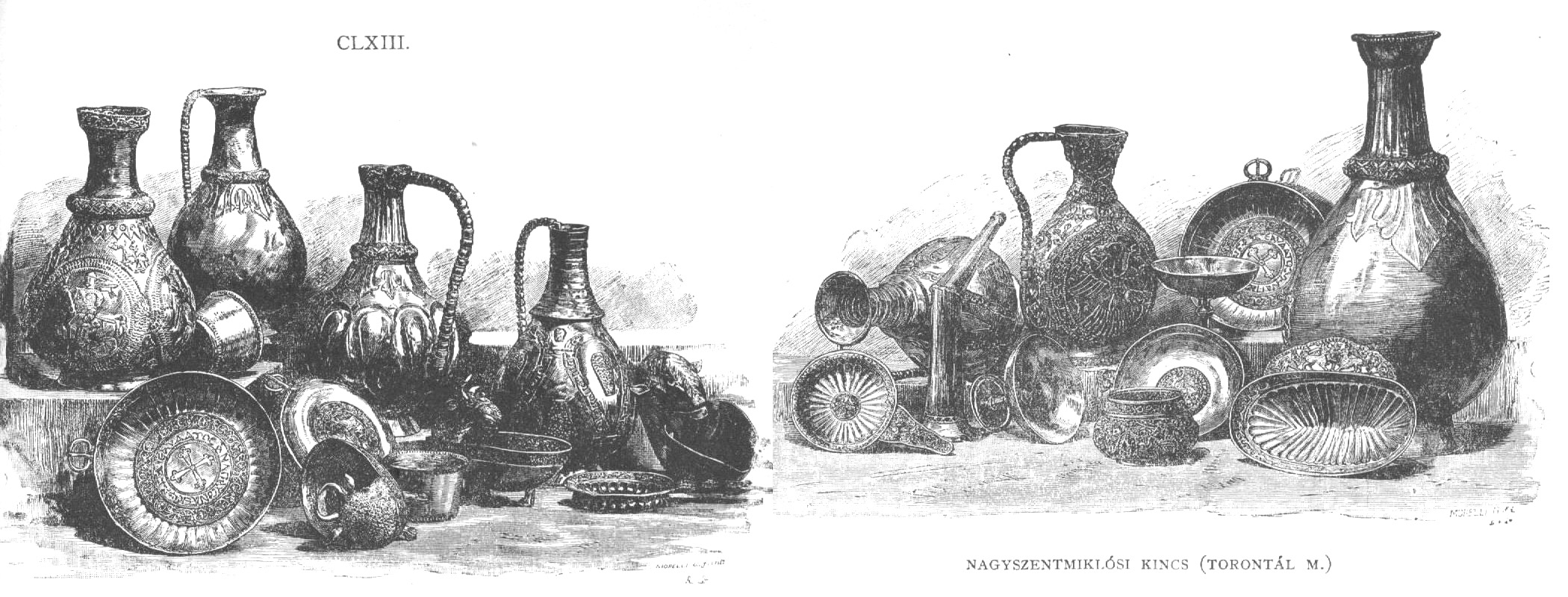 Treasure of Nagyszentmiklós